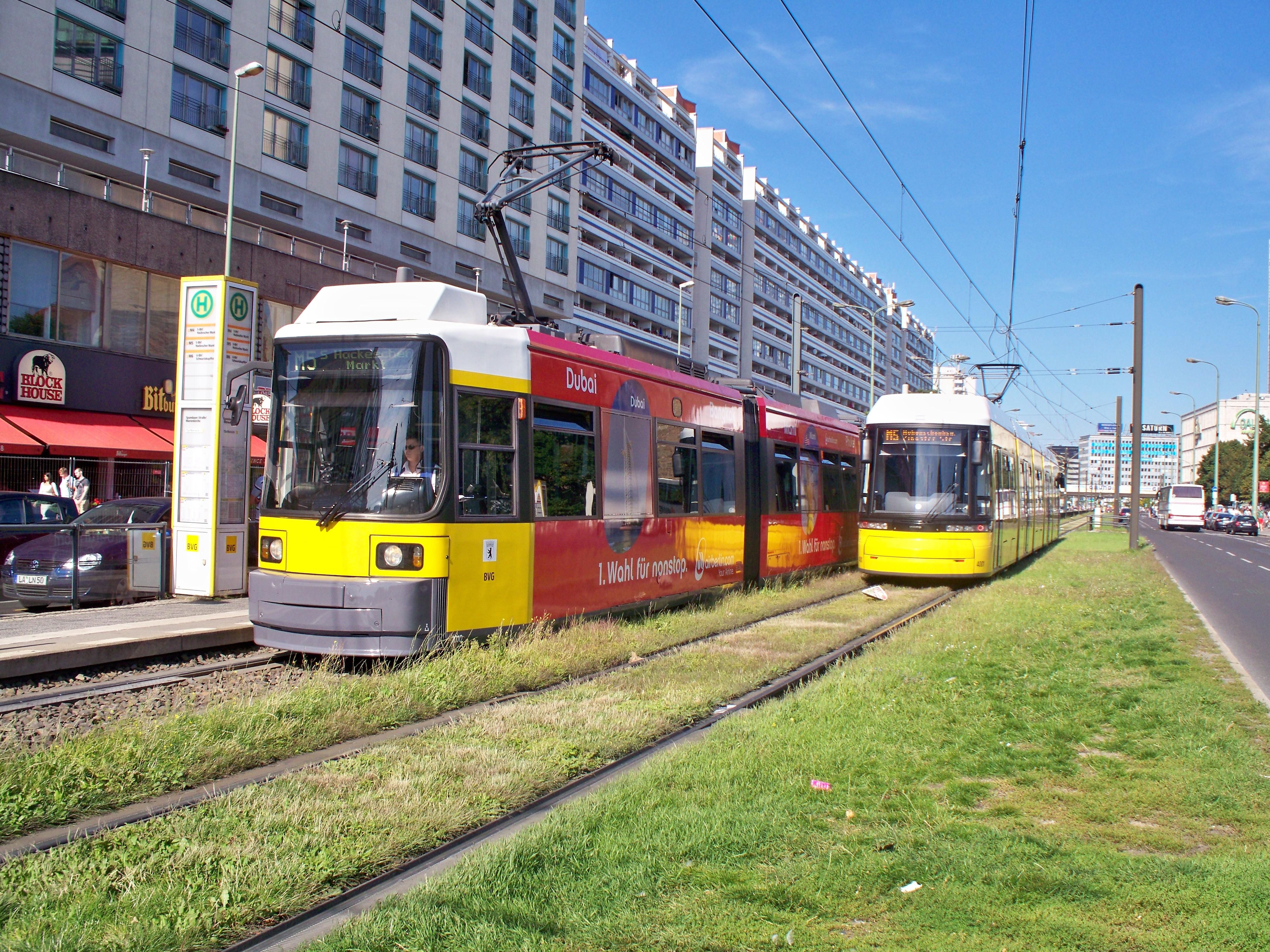 Trams on Karl-Liebknecht-Straße near Alexanderplatz in Berlin